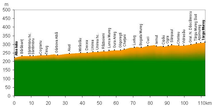 elevation profile of the railway track Alba Iulia-Targu Mures